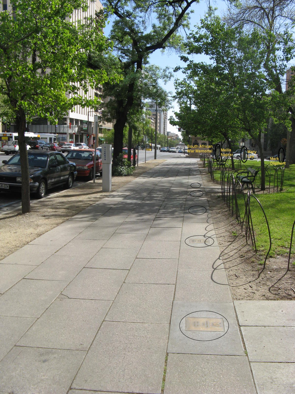 Jubilee 150 Walkway looking west from the statue of Dame Roma Mitchell.